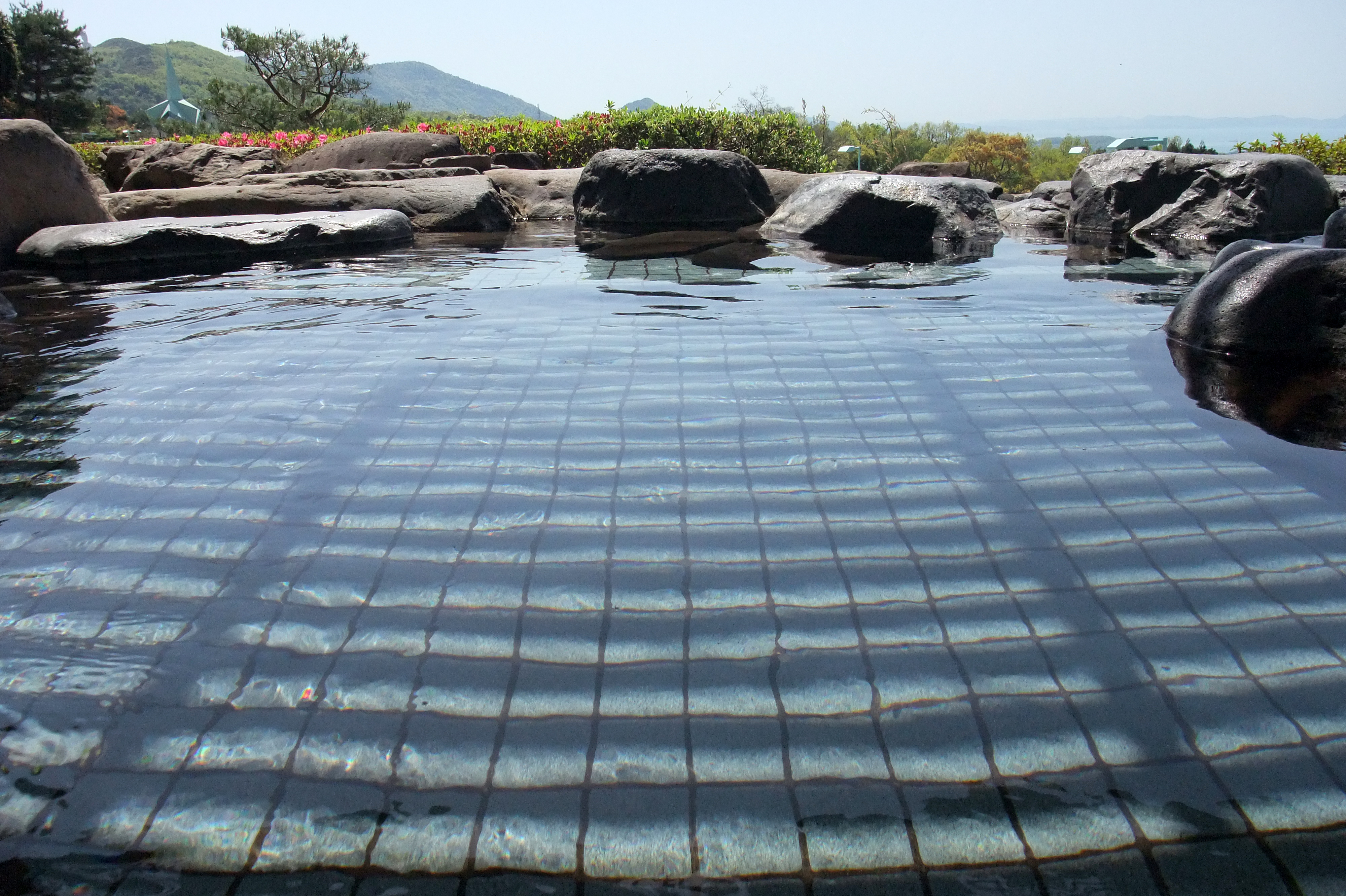 Resort_Hotel_Olivean_Shodoshima in Shodo Island, Tonosho, Kagawa Prefecture, Japan